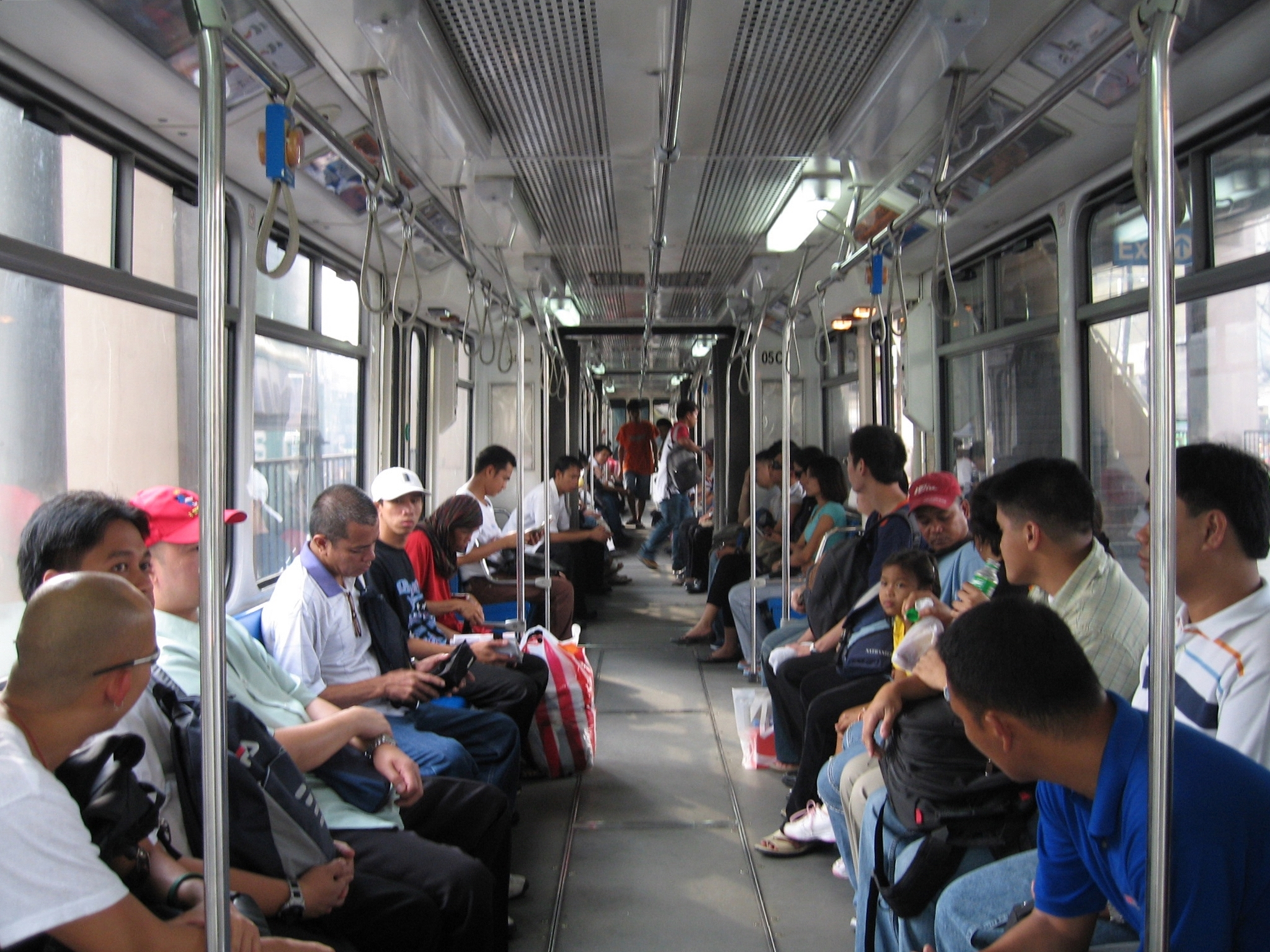 Inside a Manila MRT-3 Class 3000 Train